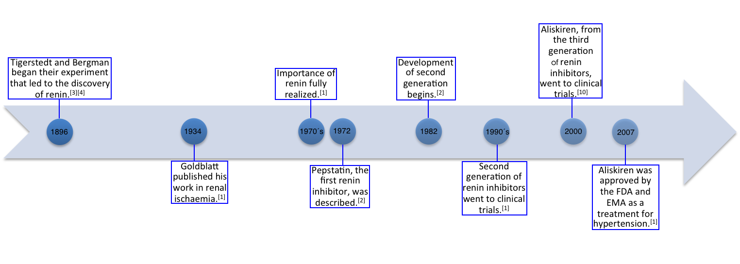 Renin-inhibitor timeline. Created using Microsoft Word and Paintbrush